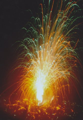 Fireworks a fountain